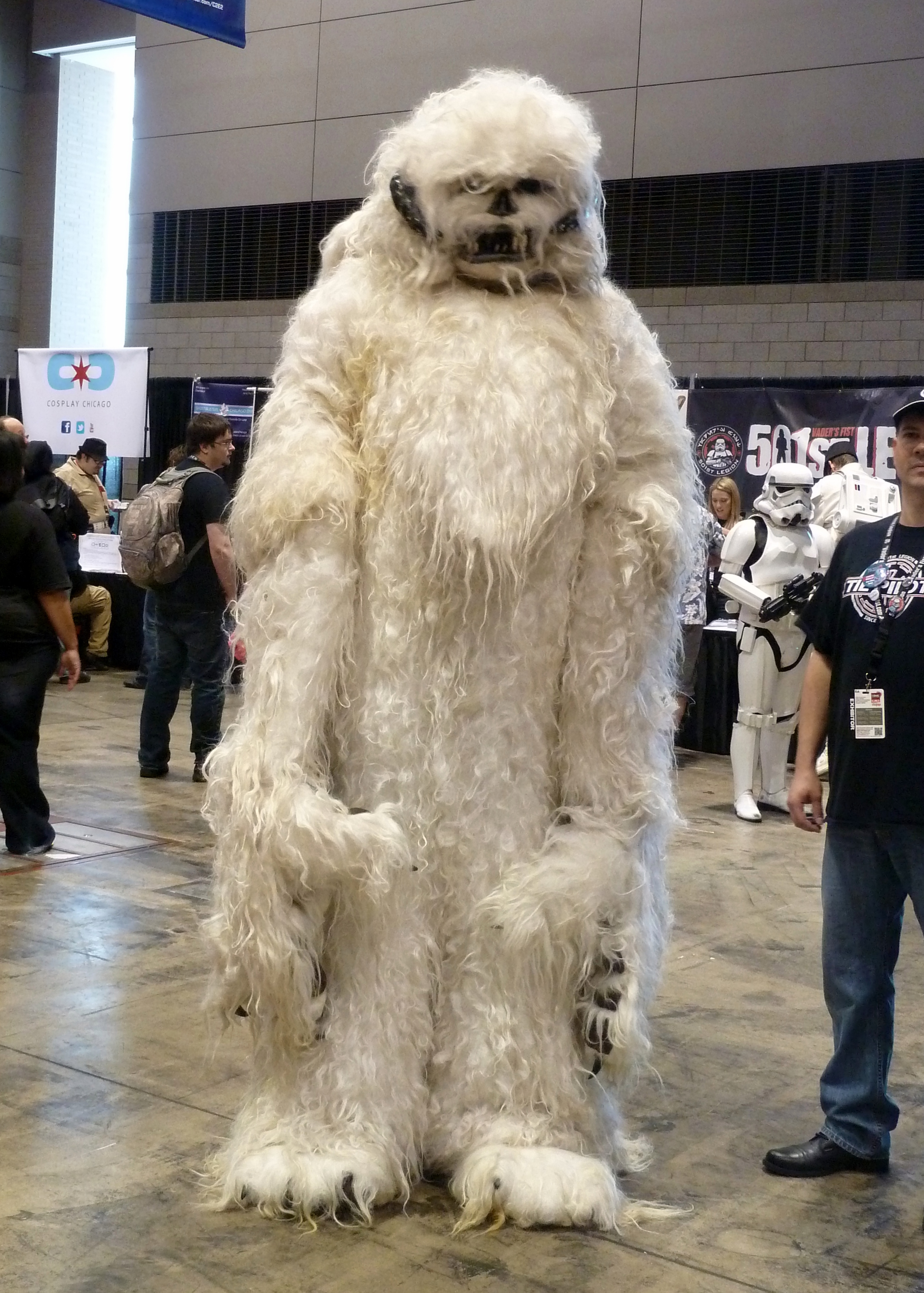 Star Wars Yeti Wampa. You can see just how large this guy is. Cosplay at the 2013 Chicago Comic & Entertainment Expo (C2E2).